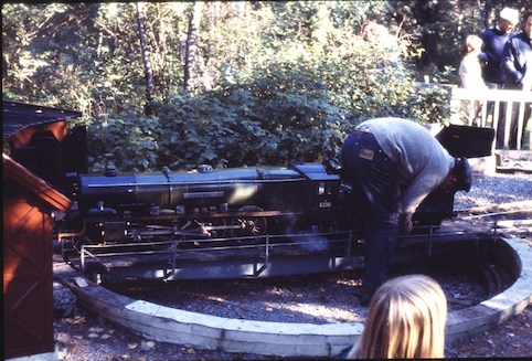 Model of automotive at Galtarö järnväg